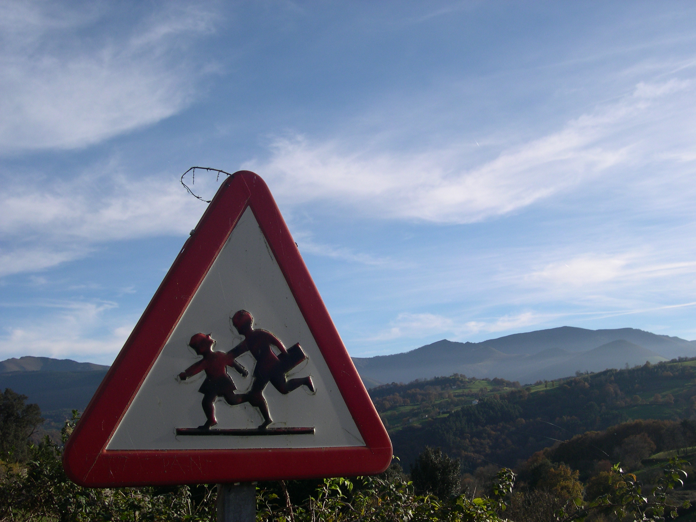 School children. Traffic signal. Karrantza. Biscay. Basque Country.